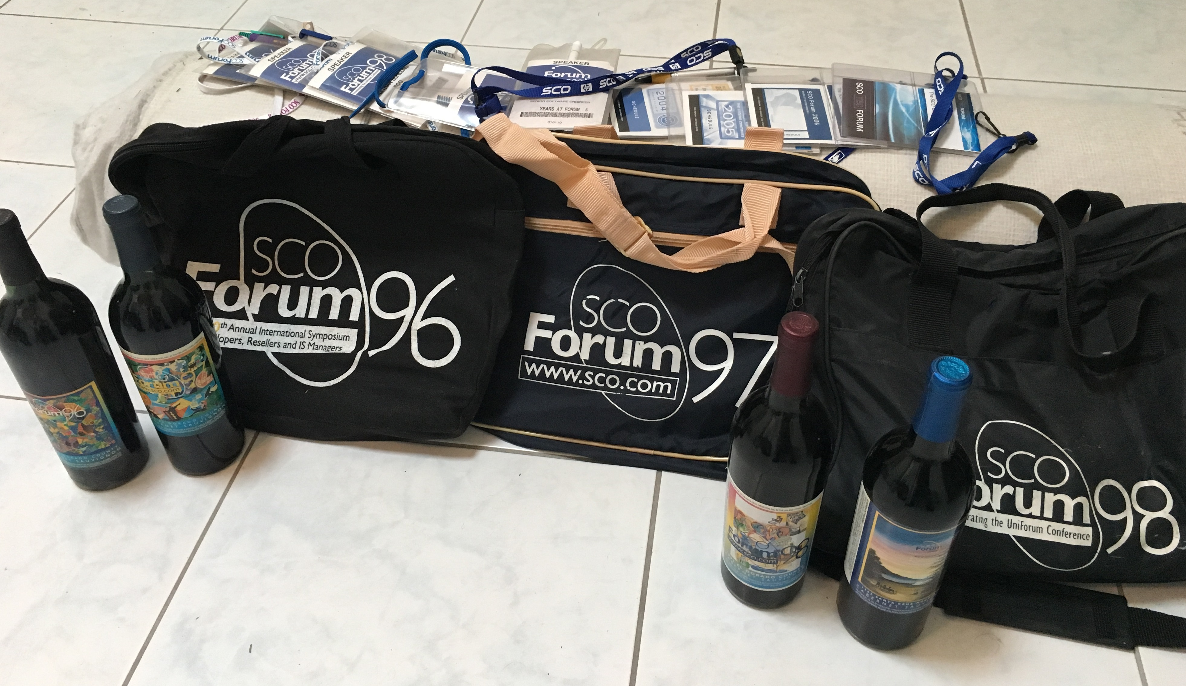 Things given out to attendees at the SCO Forum computer conference over the years: attendee badges and lanyards (including the later Las Vegas years of Forum as well), bags, and Forum-labeled bottles of wine (given as a gift to speakers at the conference).